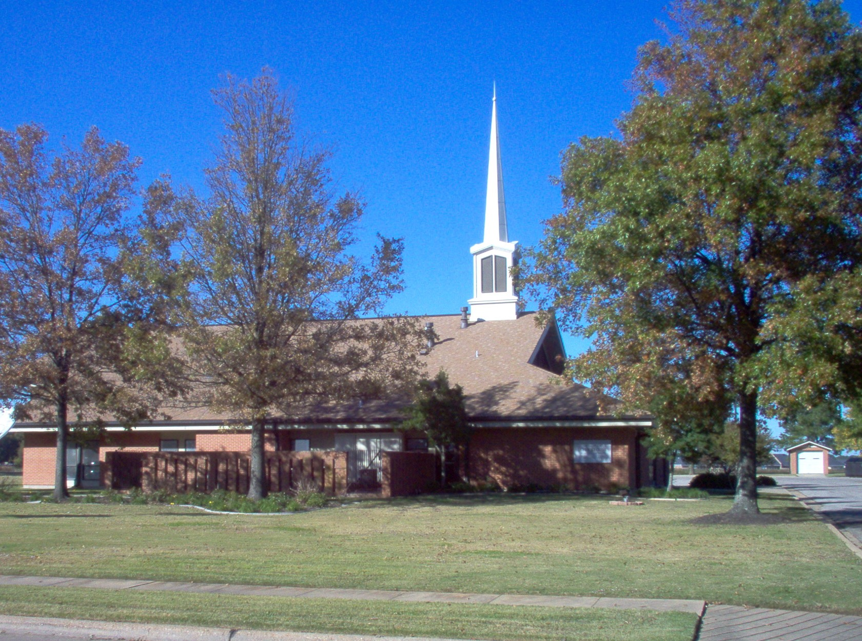 Description: The West Memphis Branch meetinghouse of The Church of Jesus Christ of Latter-day Saints.